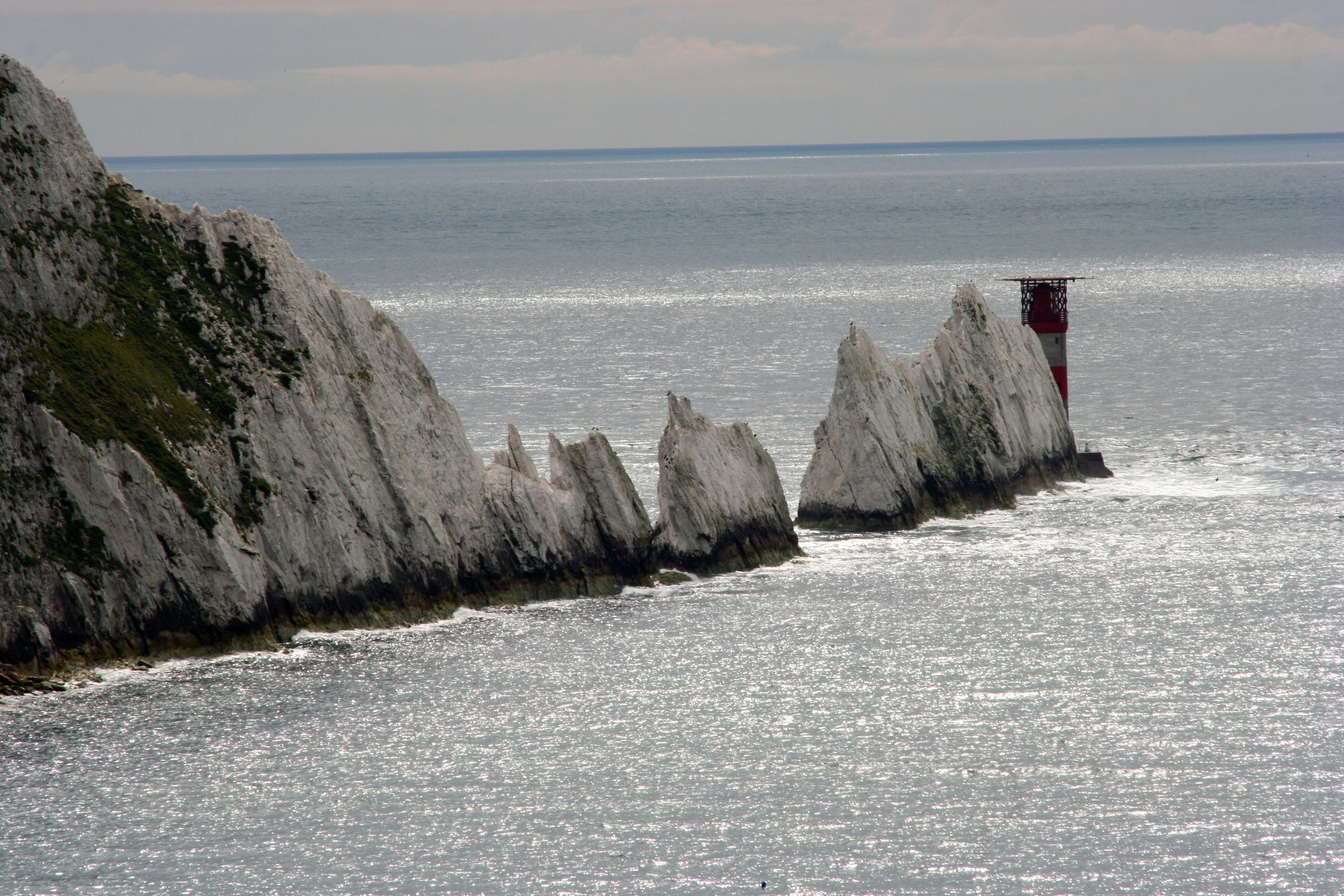 The Needles, viewed from Alum Bay.